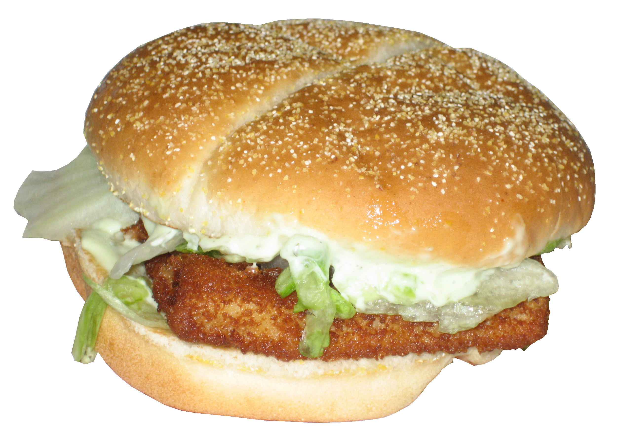 The BK Big Fish is a fish sandwich sold by the international fast-food restaurant chain Burger King. The product is sold in North America only, however BK sells a fish sandwich in all of its markets